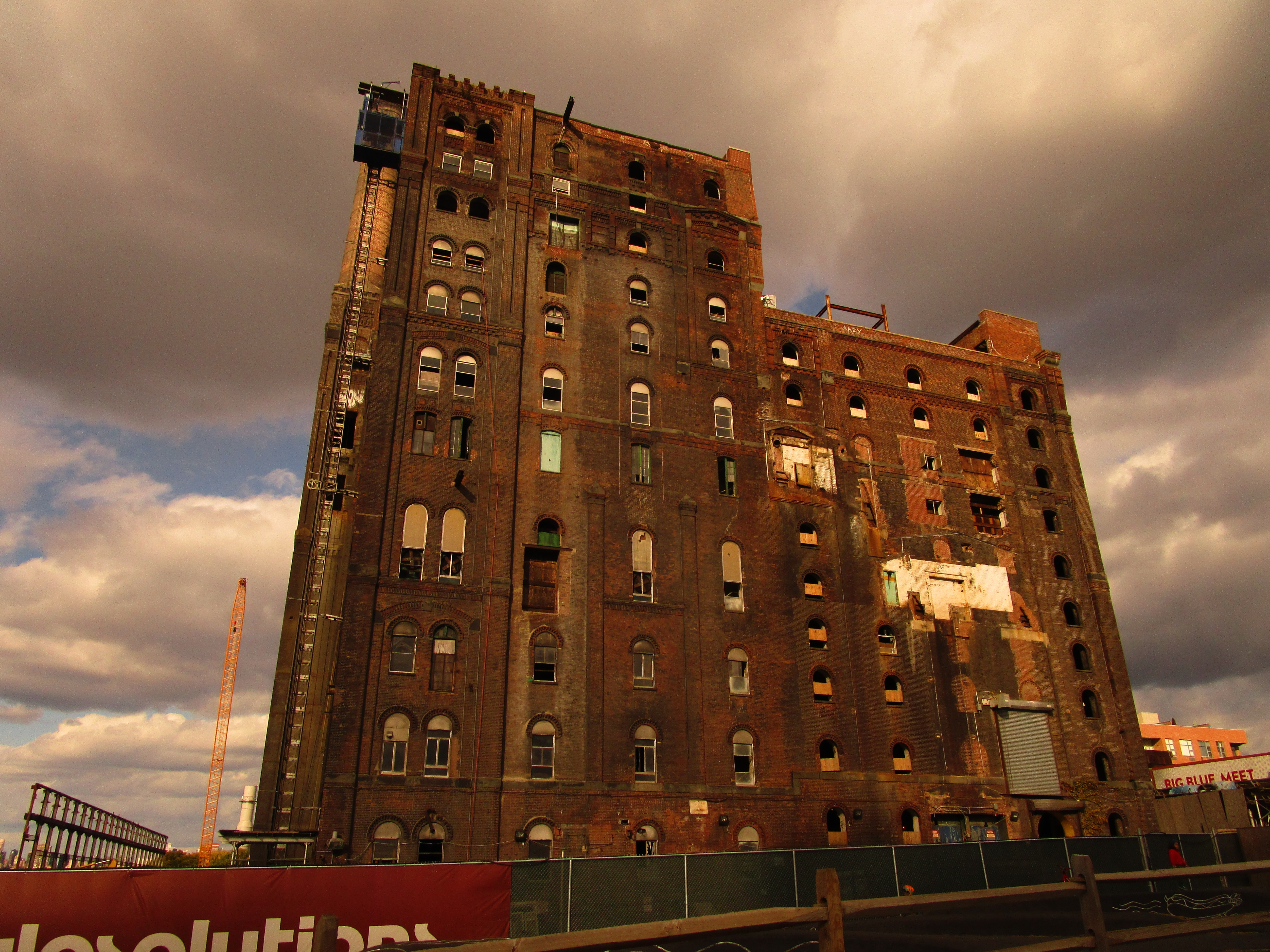 Exterior of the Domino Sugar Factory - exterior - North Brooklyn Farms - OHNY 2015 - October 18, 2015Site: North Brooklyn Farms